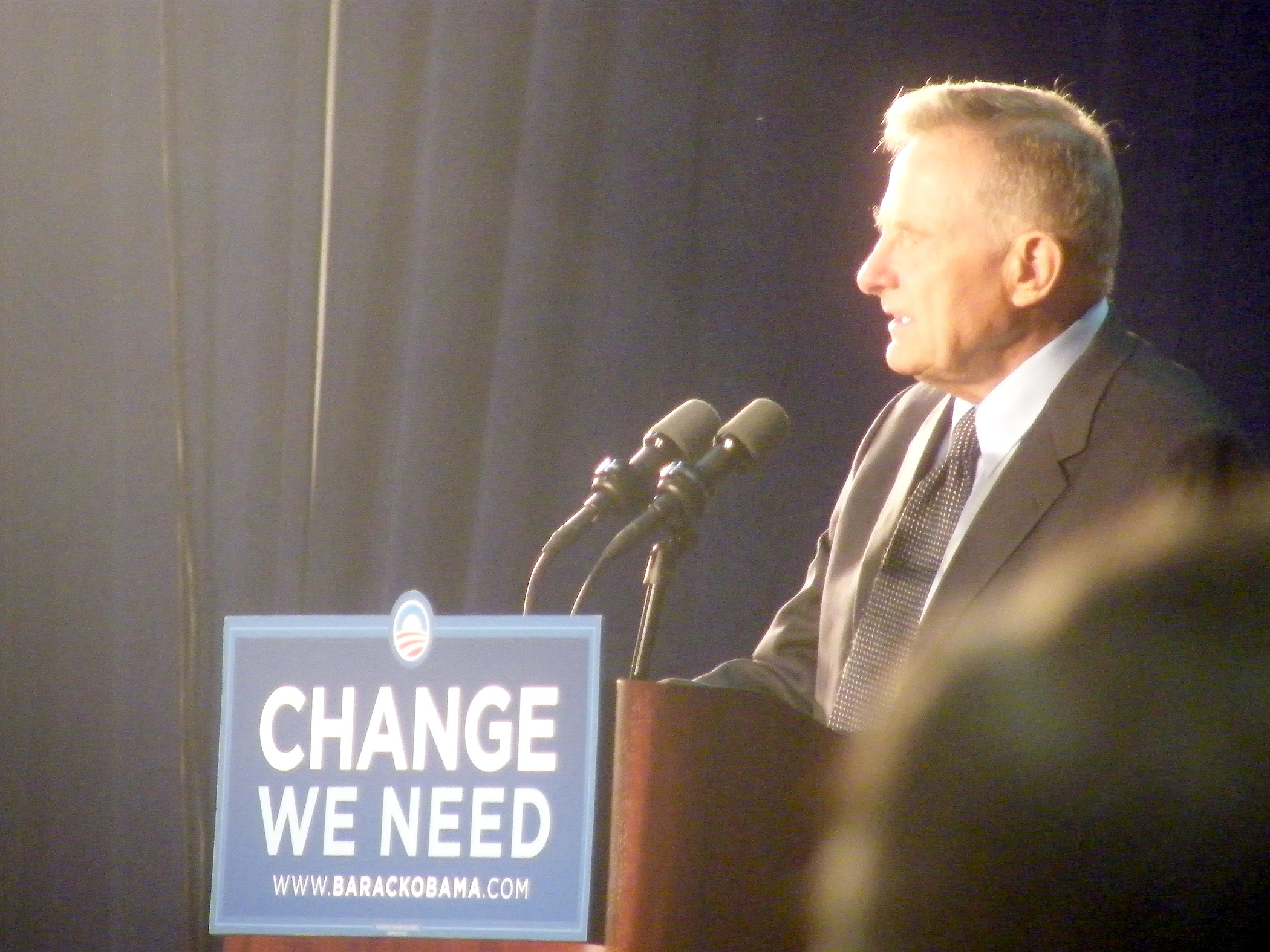 Fort Wayne Indiana October 15 2008